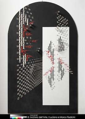 Tempi prospettici by Carlo Alfano